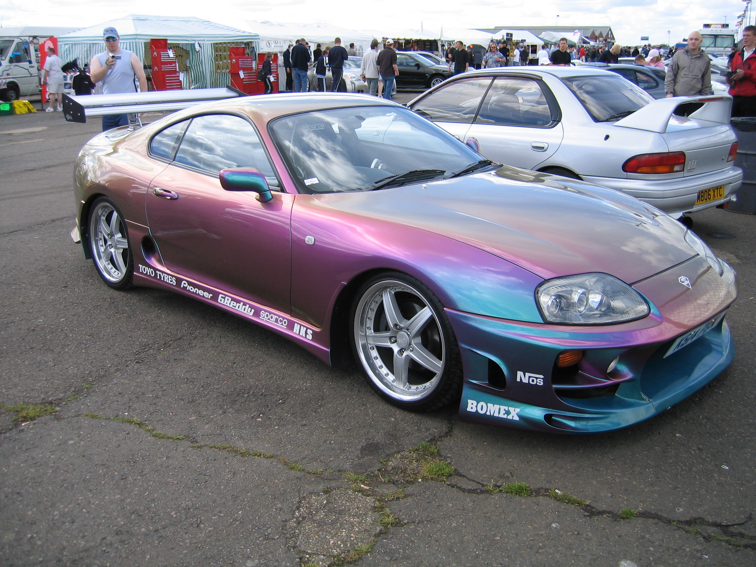 An awesome paint job on a Toyota Supra. Photo taken at Japspeed at Santa pod